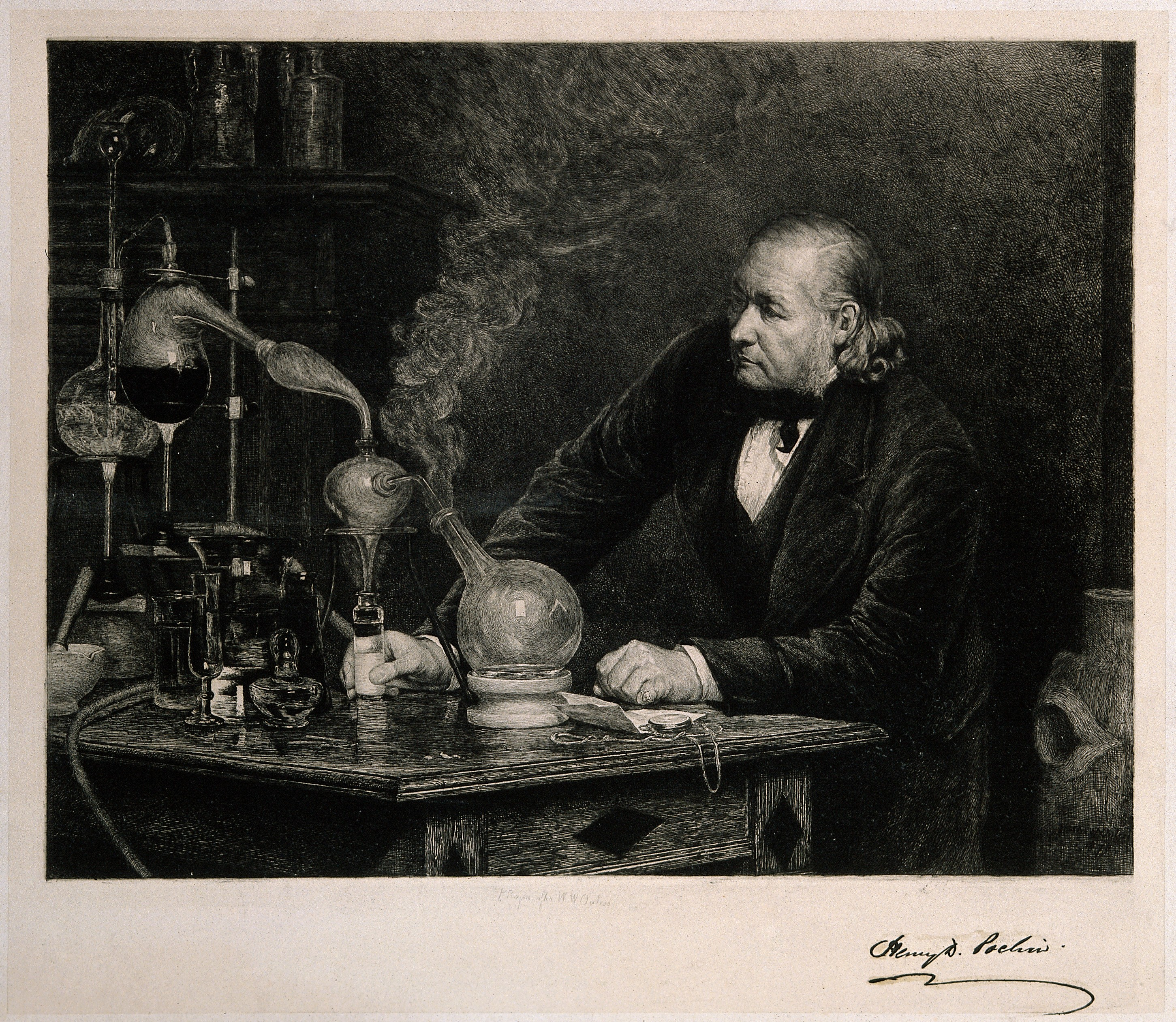 Henry Davis Pochin. Etching by P. A. Rajon after W. W. Ouless, 1875. Iconographic Collections Keywords: portrait prints; Henry Davis Pochin; Paul Adolphe Rajon; etchings